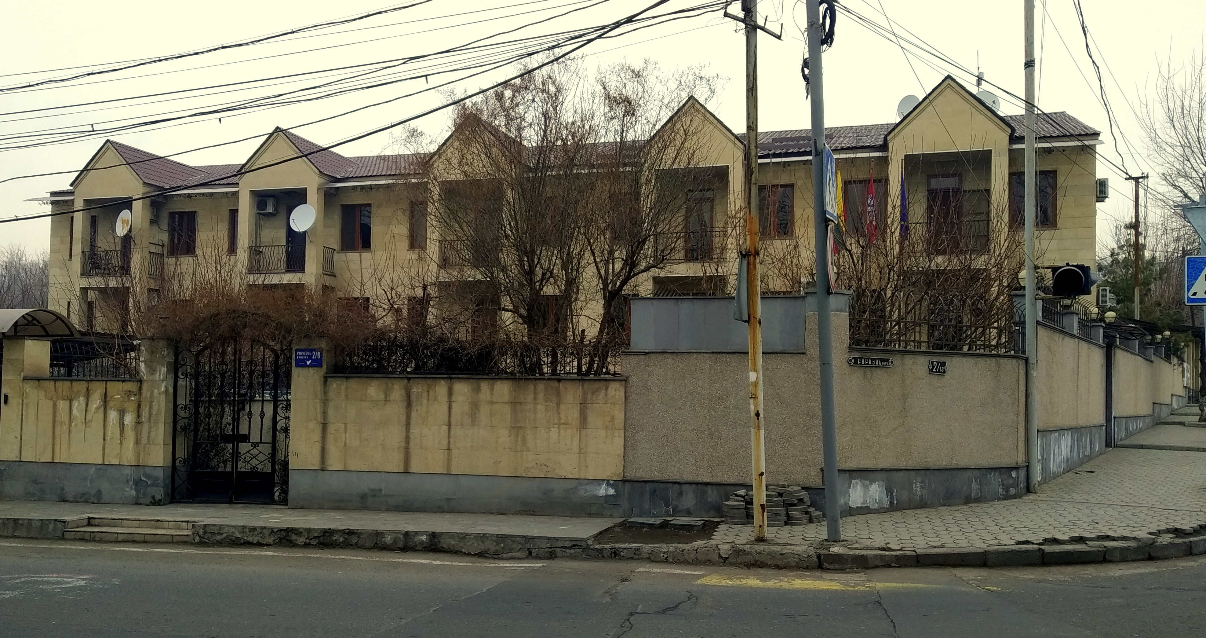 Embassy of Lithuania, Babayan Street, Yerevan